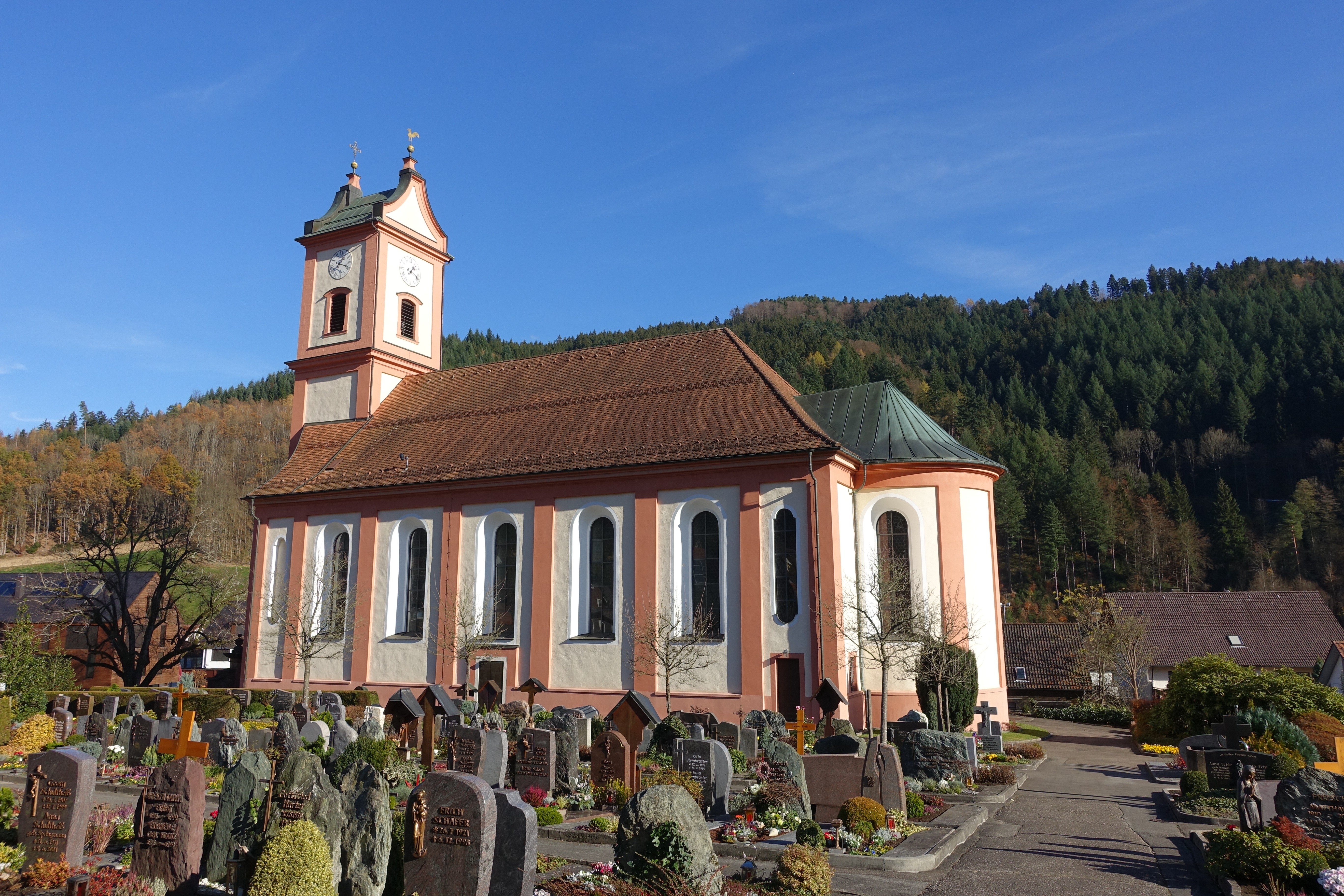 Oberwolfach St. Bartholomäus: Exterior from north-west